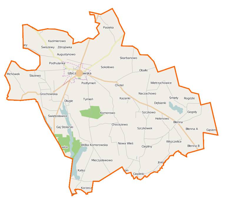 Map of Gmina Izbica Kujawska, Poland This map of Izbica Kujawska (gmina) was created from OpenStreetMap project data, collected by the community. This map may be incomplete, and may contain errors. Don't rely solely on it for navigation. Border coordinates52.470718.6720←↕→18.934252.3280